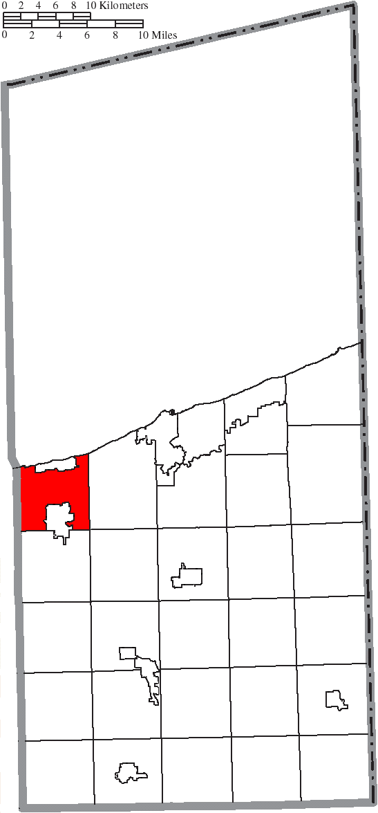 Map of the municipal and township boundaries of Ashtabula County, Ohio, United States, as of the 2000 census, with the location of Geneva Township highlighted. Township borders are shown only in unincorporated areas in order to differentiate incorporated and unincorporated areas more clearly.